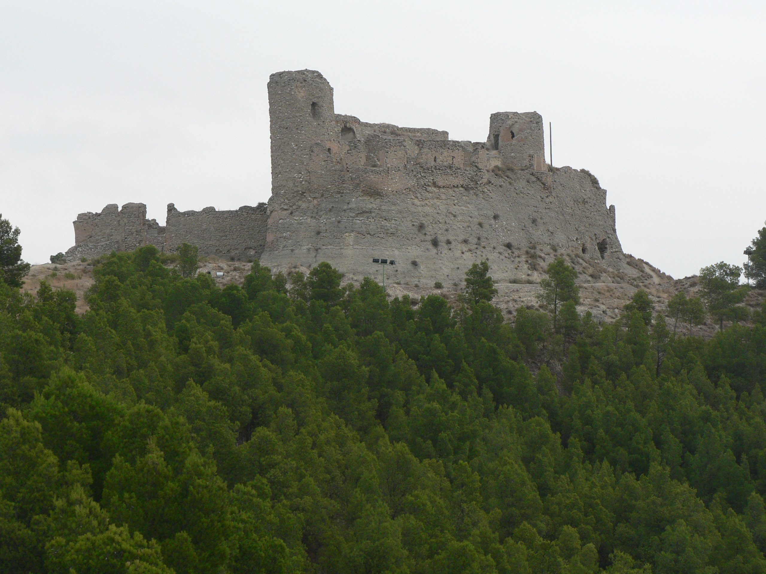 Fortress (Qal’at 'Ayyūb), Calatayud Hill